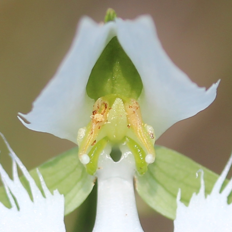 Anther of Habenaria radiata in wetland of Japan.